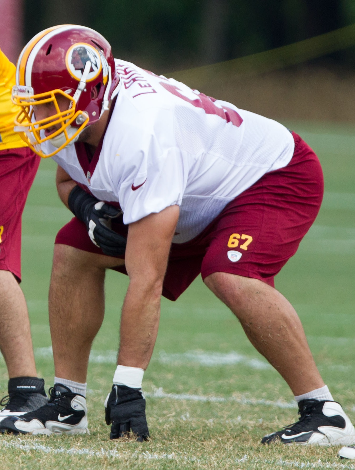 Josh LeRibeus at Washington Redskins Training Camp August 2, 2012